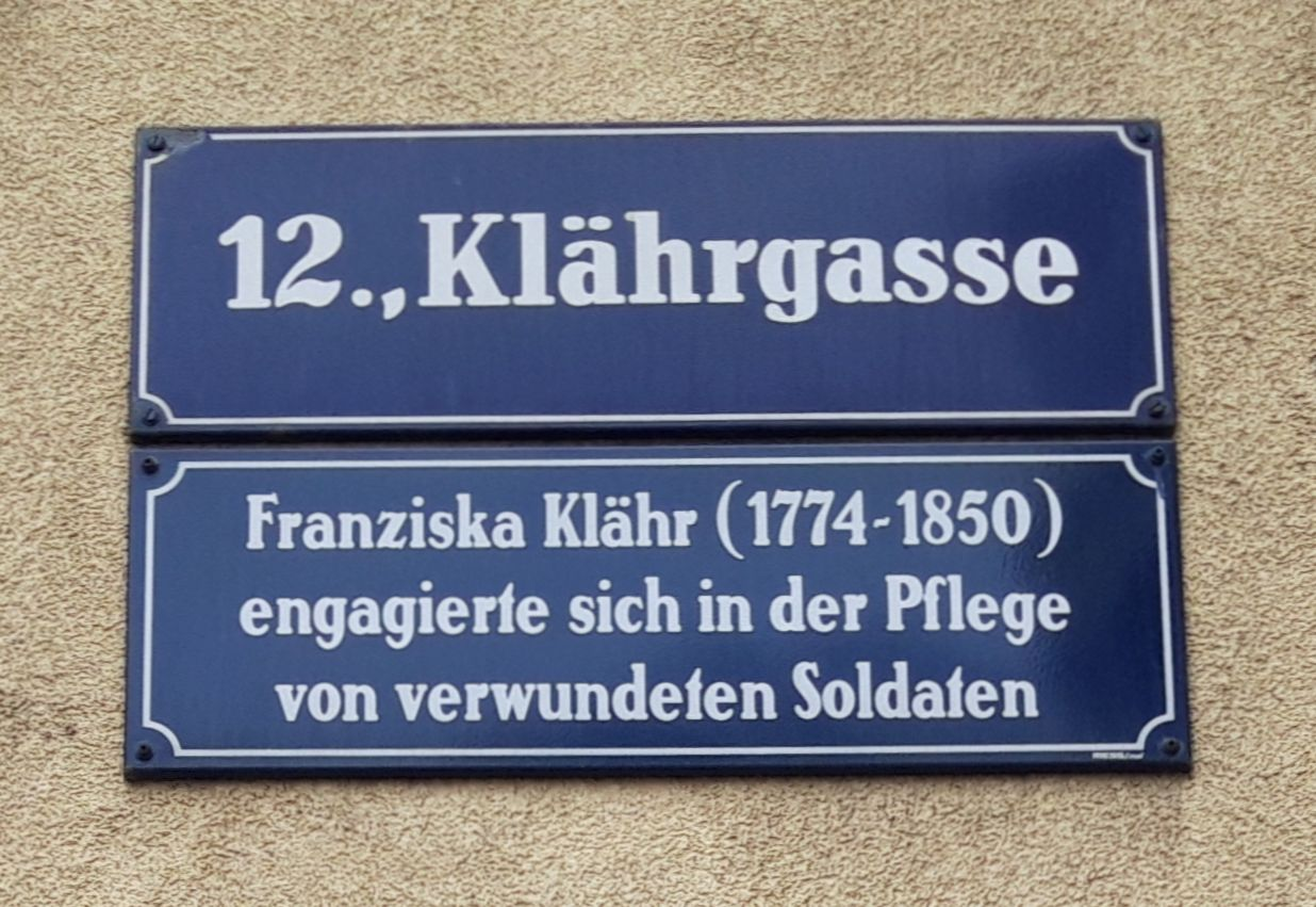 Road sign Franziska Klähr in Vienna, 12th district